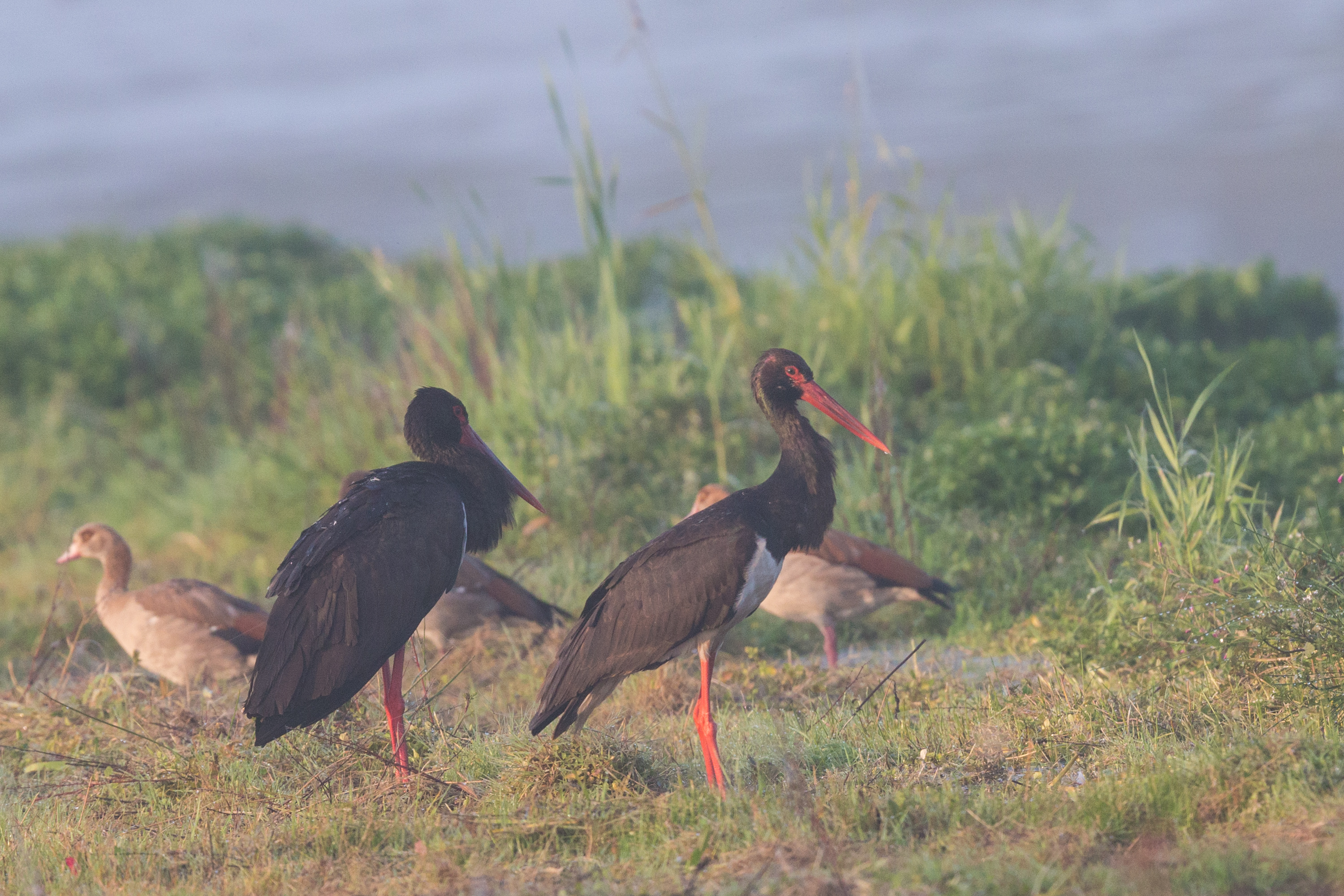 Black stork